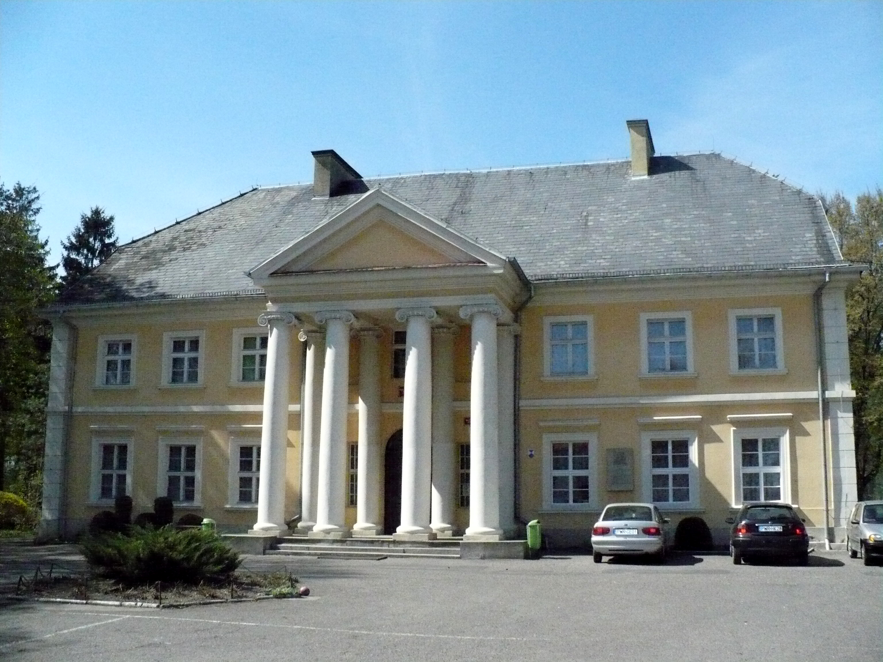 Wladyslaw Reymont's manor, view from north side